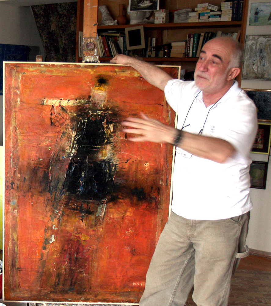 Georgian artist Gia Gugushvili shows his painting "Eastern Melody", in his Tbilisi studio, 24 June 2008.